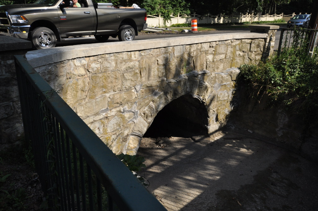 Bridge No. 2305, carrying US 44 over Burton Brook, Lakeville, Connecticut. Downstream profile view.